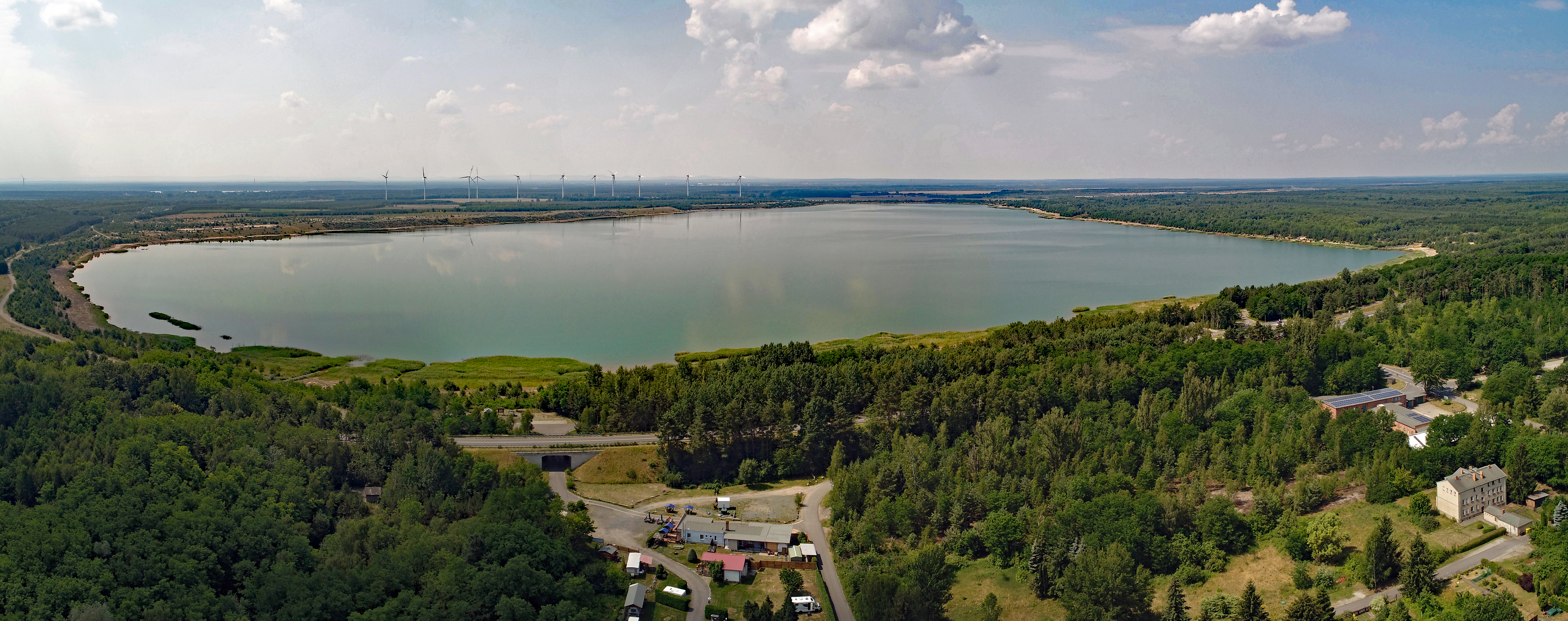 Spreetaler See (Spreetal, Saxony, Germany) Hornjoserbsce: Powětrowy wobraz Sprjewinodołskeho jězora